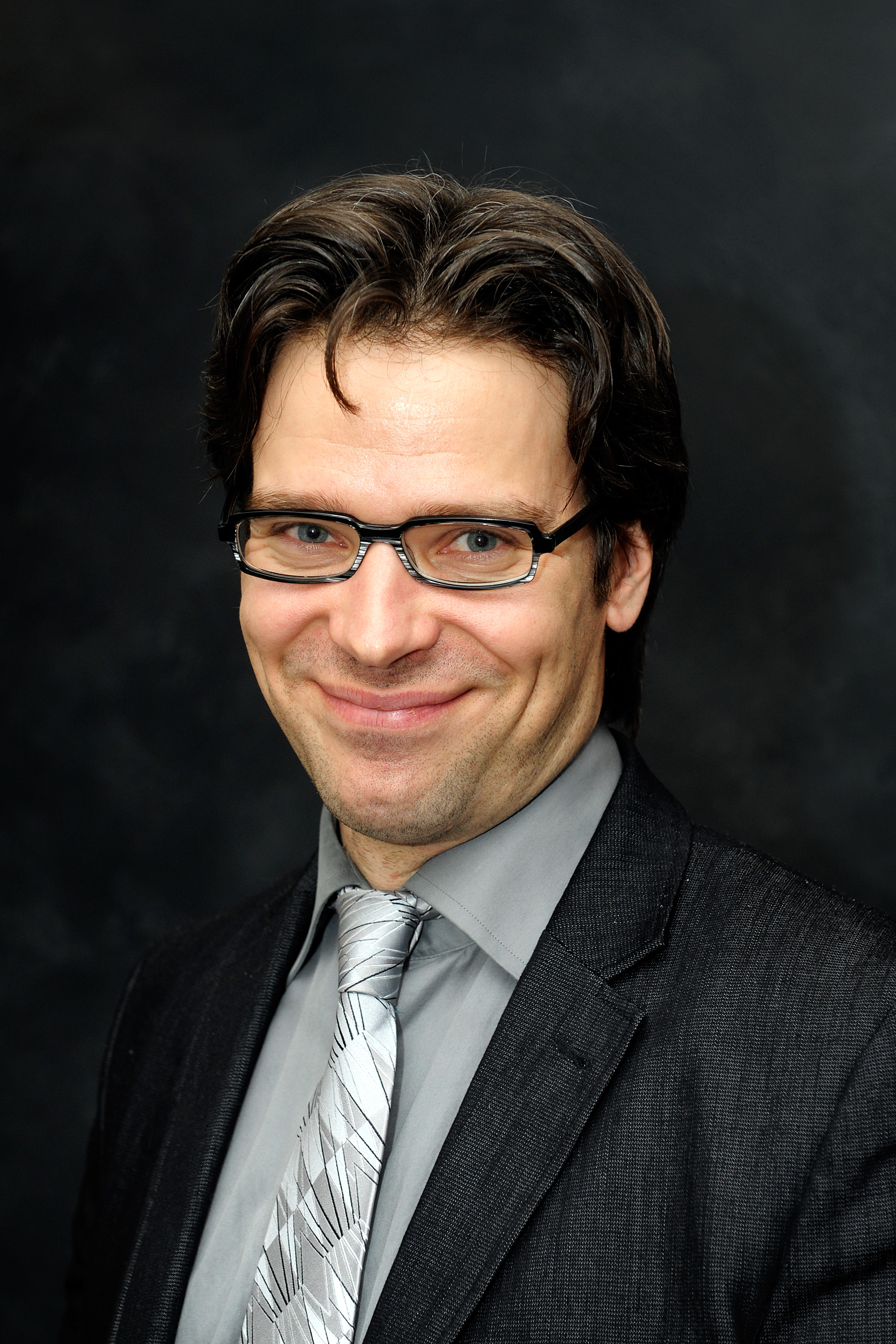 Ville Niinistö, Finnish politician (Green League)